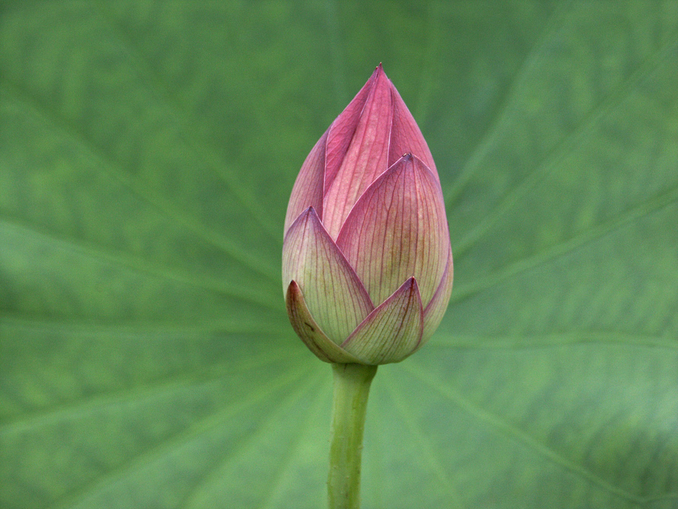 Lotus bud against the leafTagalog: Lotus bud laban sa mga dahon